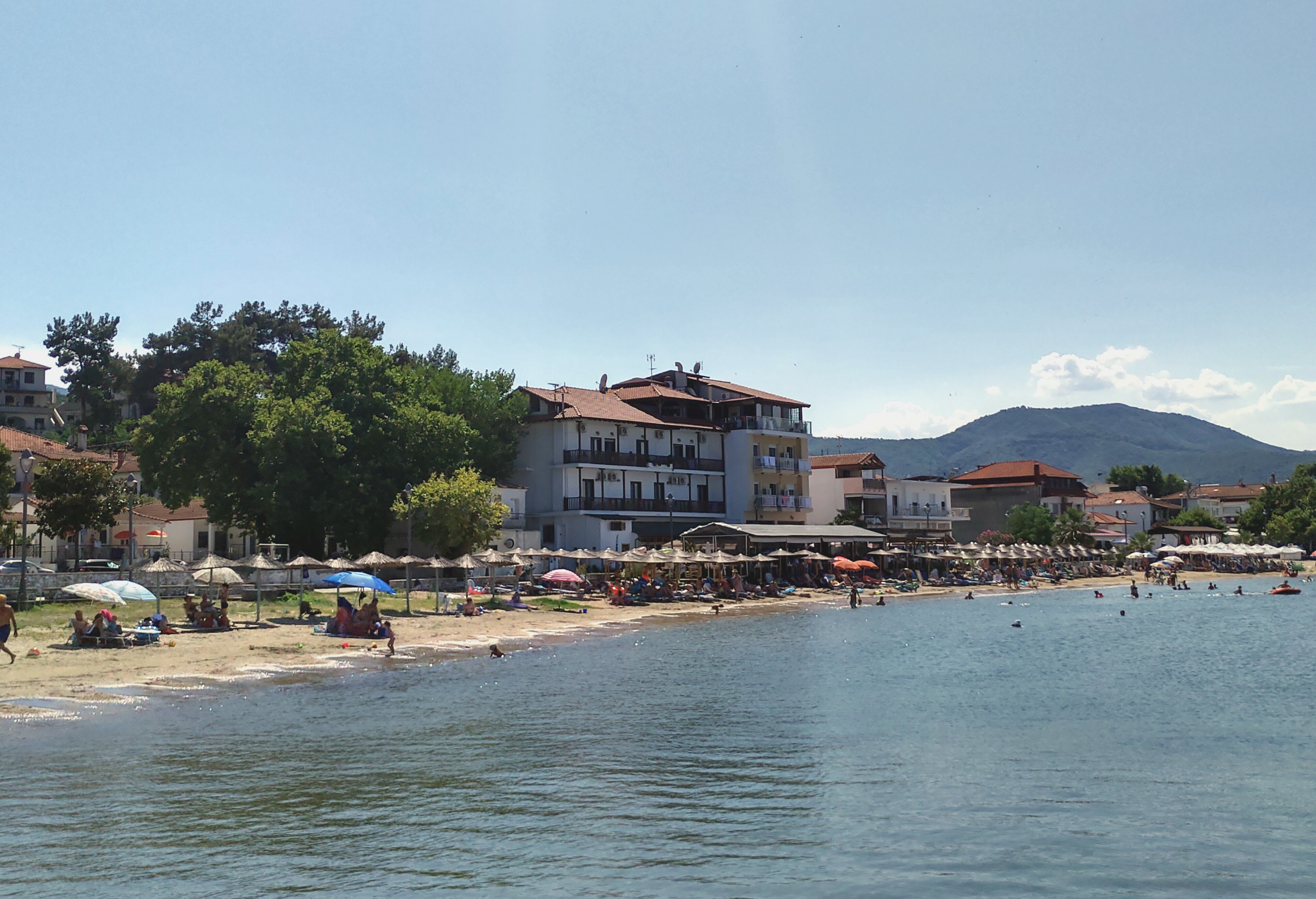 Olympiada village, Chalkidiki, Greece.